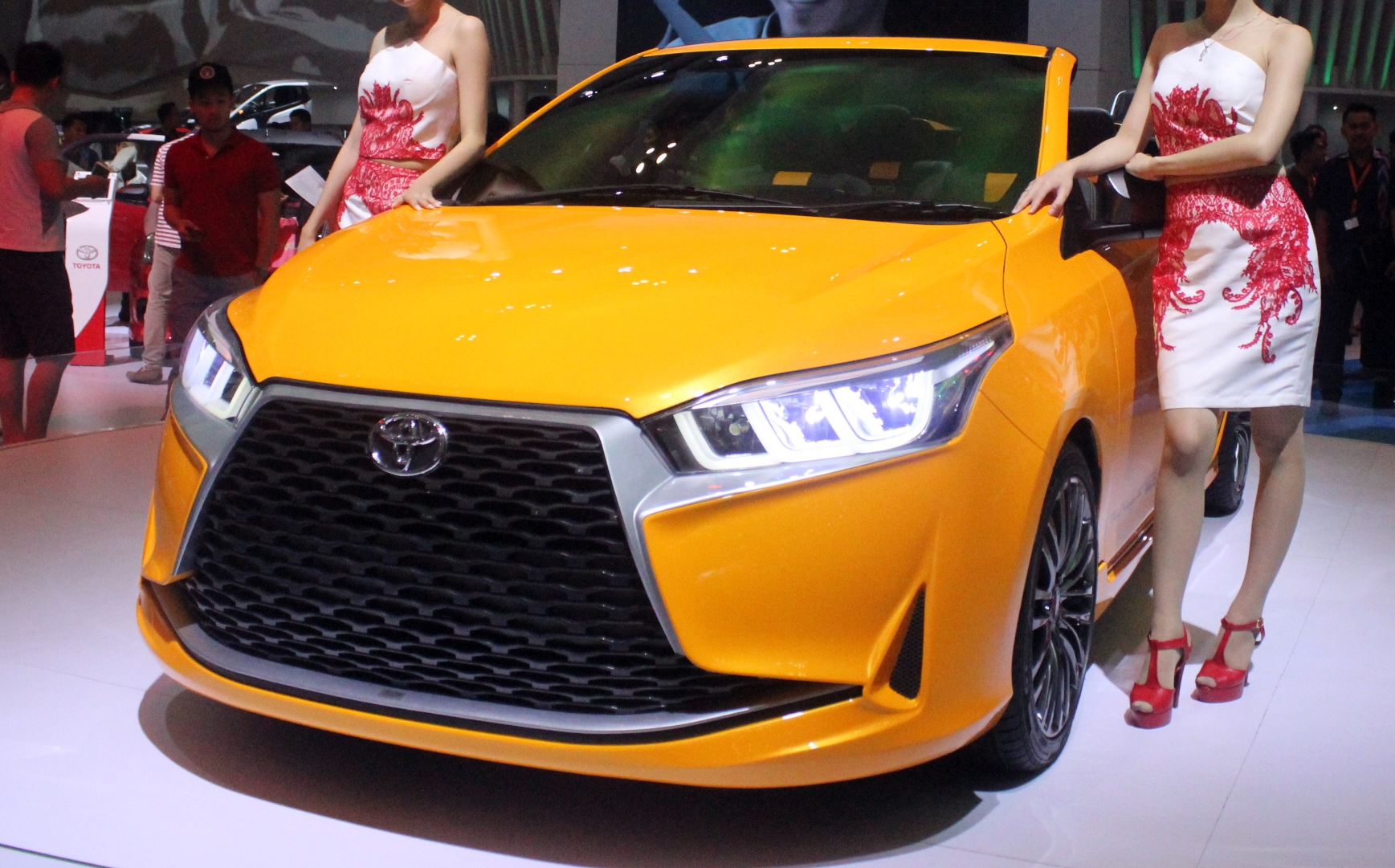 Toyota Yaris Legian Concept photographed at the 2015 Gaikindo Indonesia International Auto Show in South Tangerang, Banten, Indonesia.